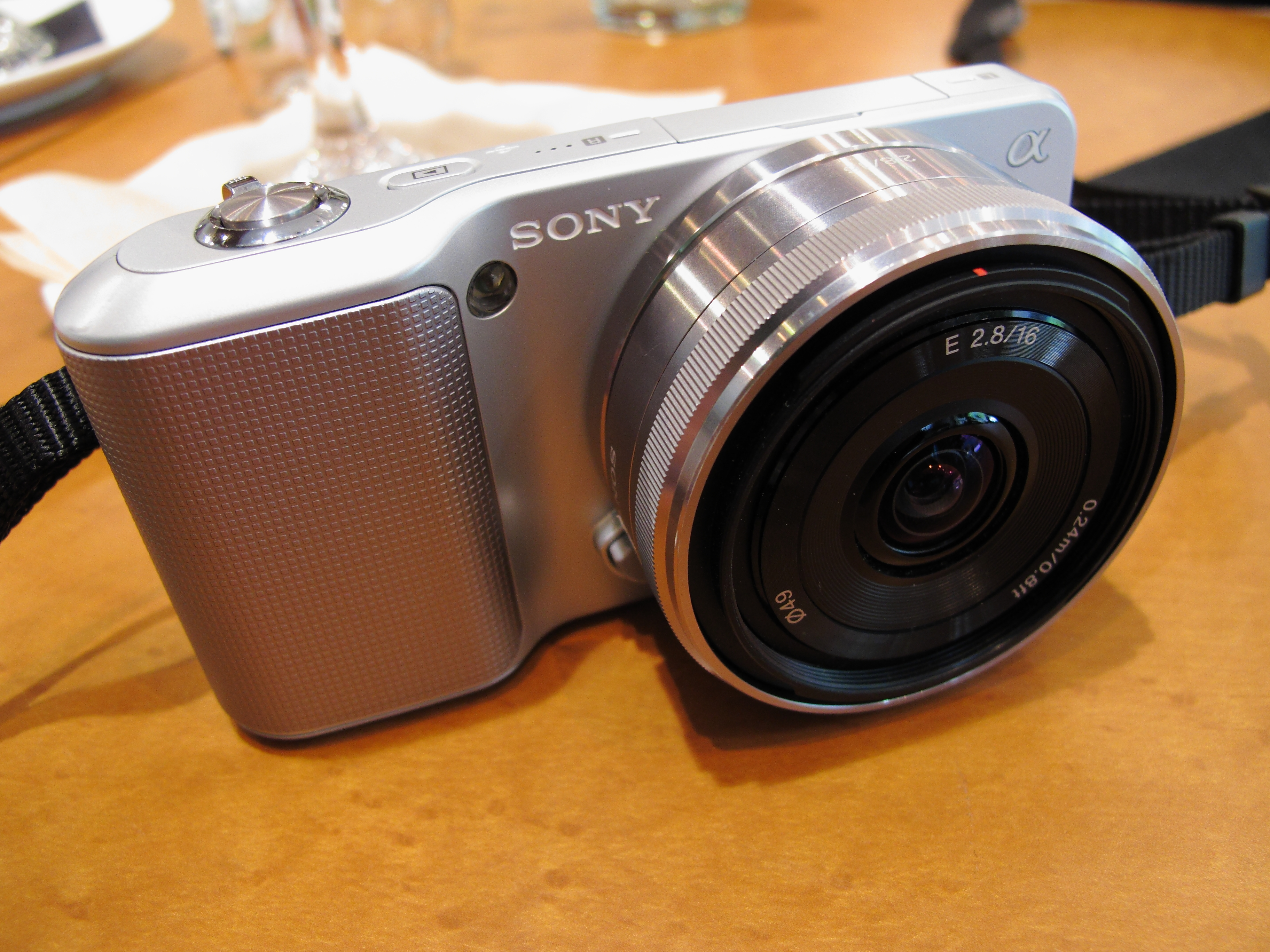 Sony Alpha NEX-3 digital camera with 16 mm f/2.8 lens